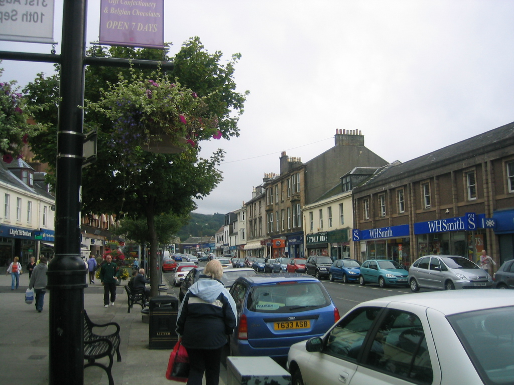 Main Street in Largs, North Ayrshire, Scotland, UK.